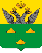 Balagansk (Irkutsk oblast), coat of arms, 1777